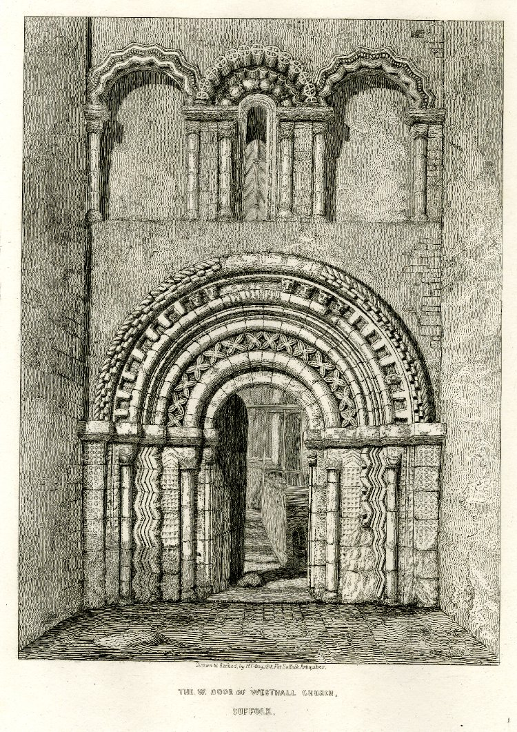 "The west door of Westhall Church, Suffolk," etching, by the British printmaker Henry Davy. 303 mm x 216 mm. Courtesy of the British Museum, London.